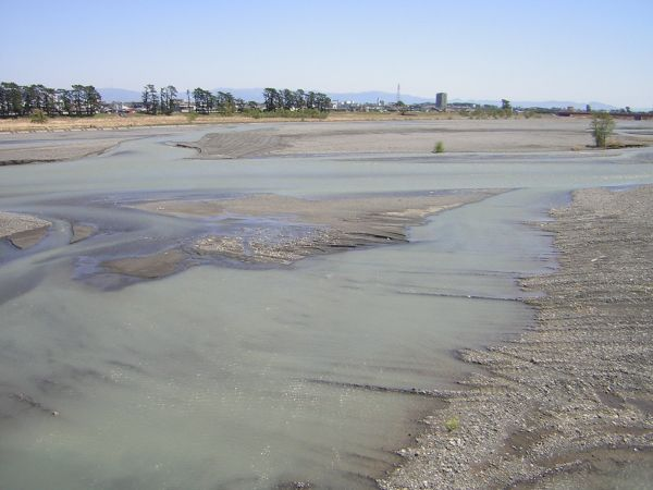 Abekawa downstream from Shizuoka O-hashi